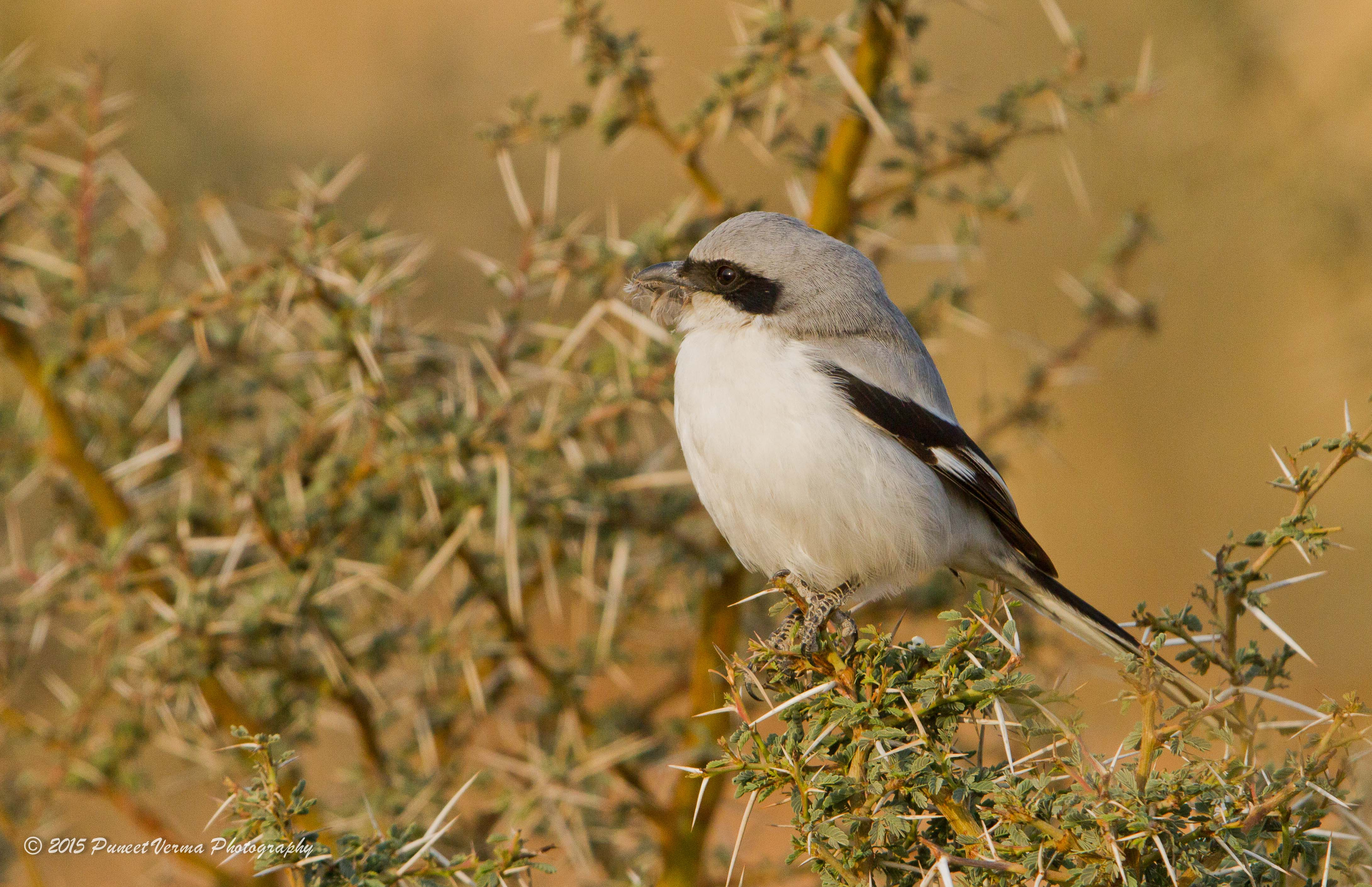 Lanius meridionalis - Southern Grey Shrike feeding on sparrow at Tal Chappar